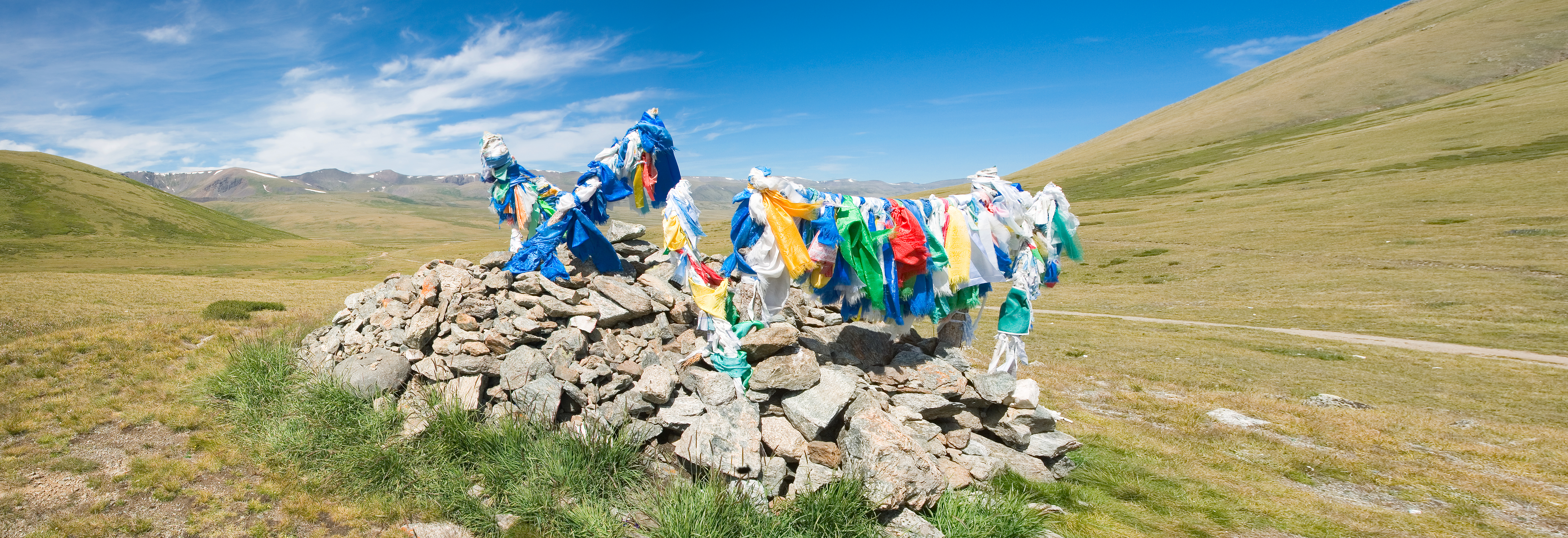 Obo (saburgan) on the Buguzun Pass. In the Altai Mountains on the border of Altai and Tyva